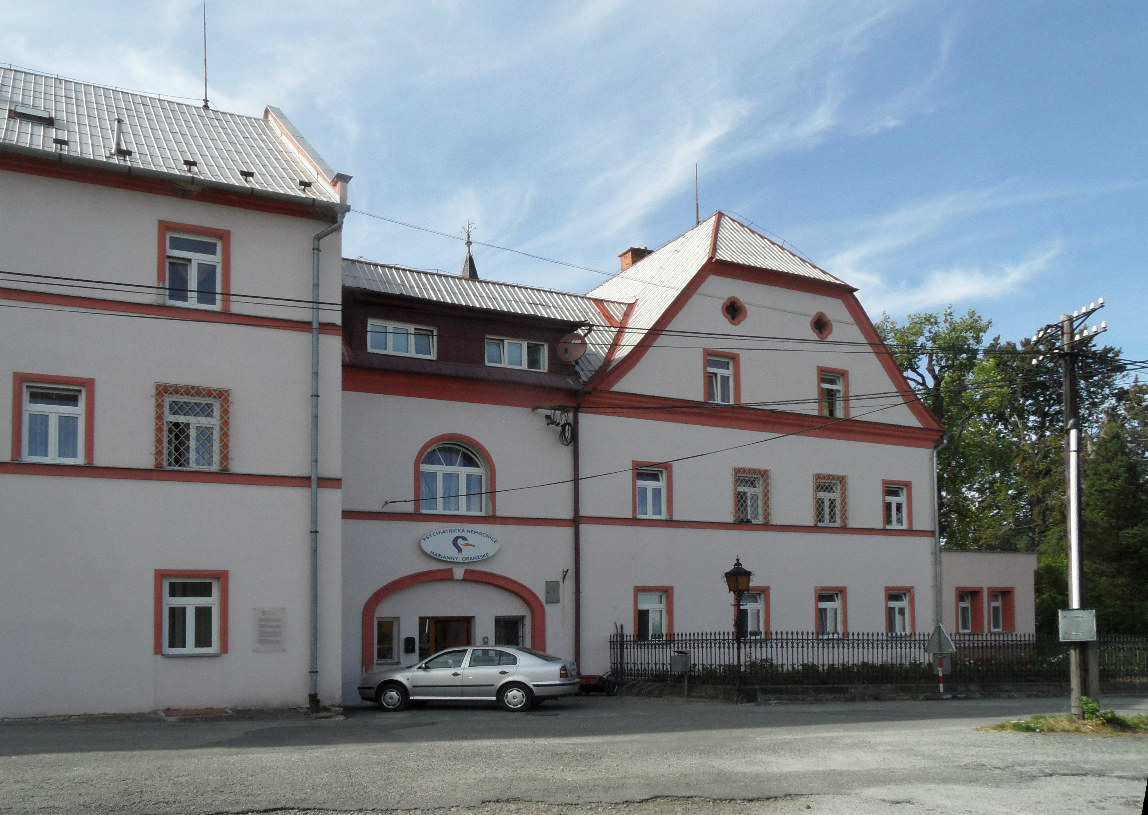 Ves Bílá Voda A. Chateau, now Psychiatric Hospital. Jeseník District, the Czech Republic.